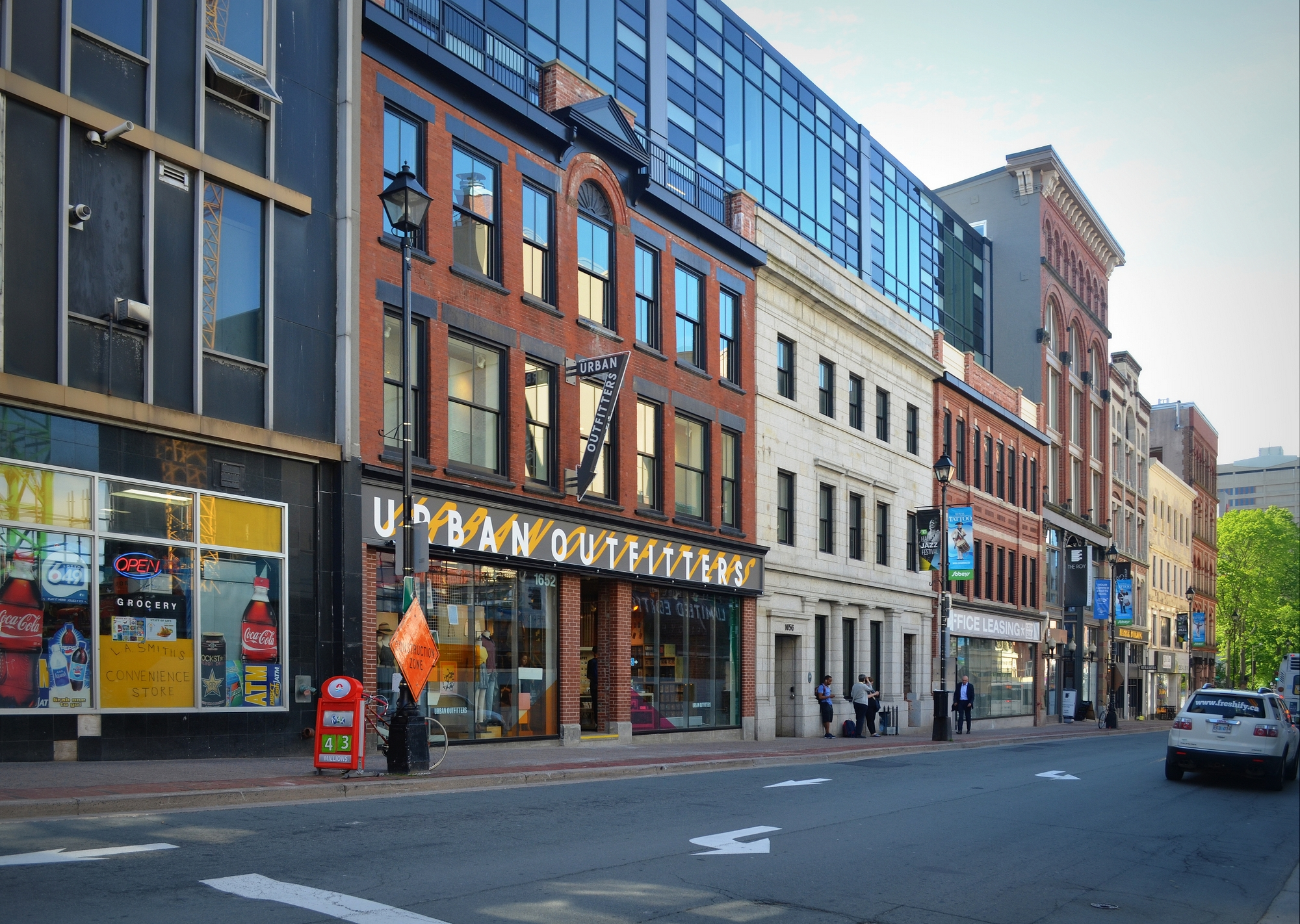 The streetwall of Barrington Street between Sackville and Prince Streets, Halifax.